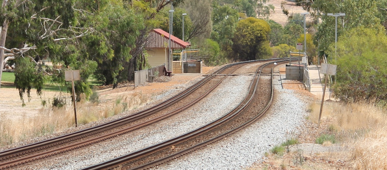 Toodyay railway station from the east (Duke Street North), Toodyay, Western Australia